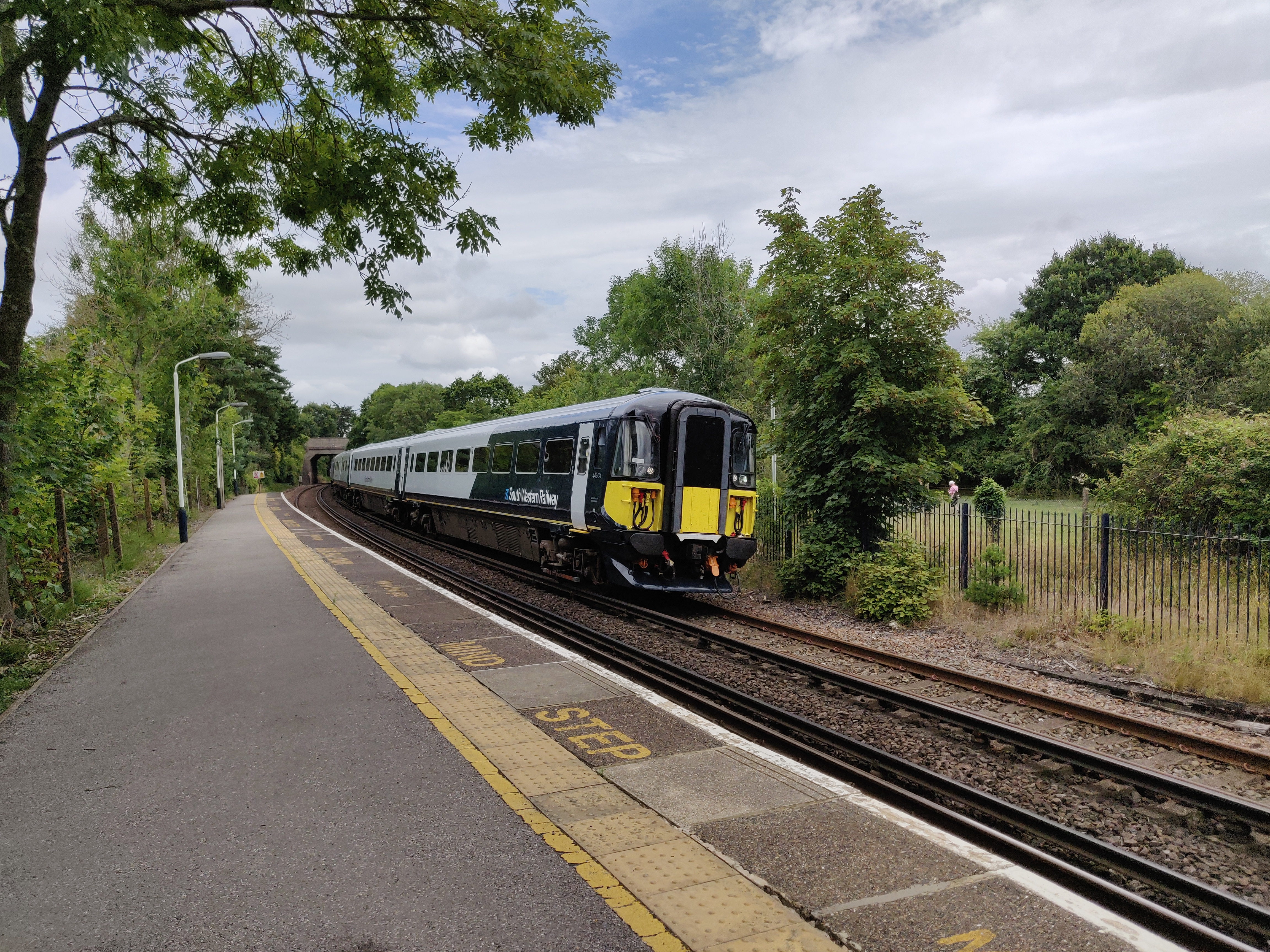 442414 at Ashurst New Forest with updated South Western Railway livery. On a test run in July 2019.